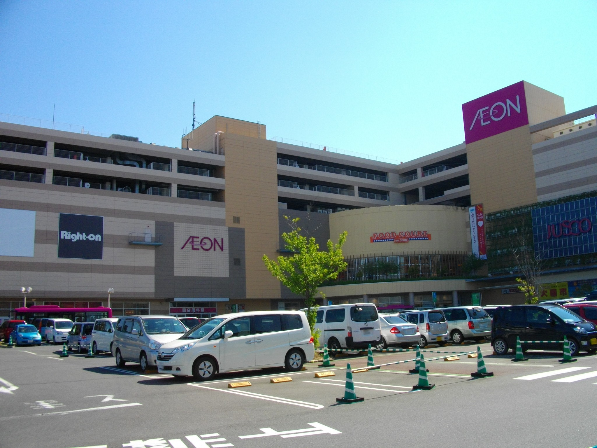 AEON Kashiwa Shopping Center